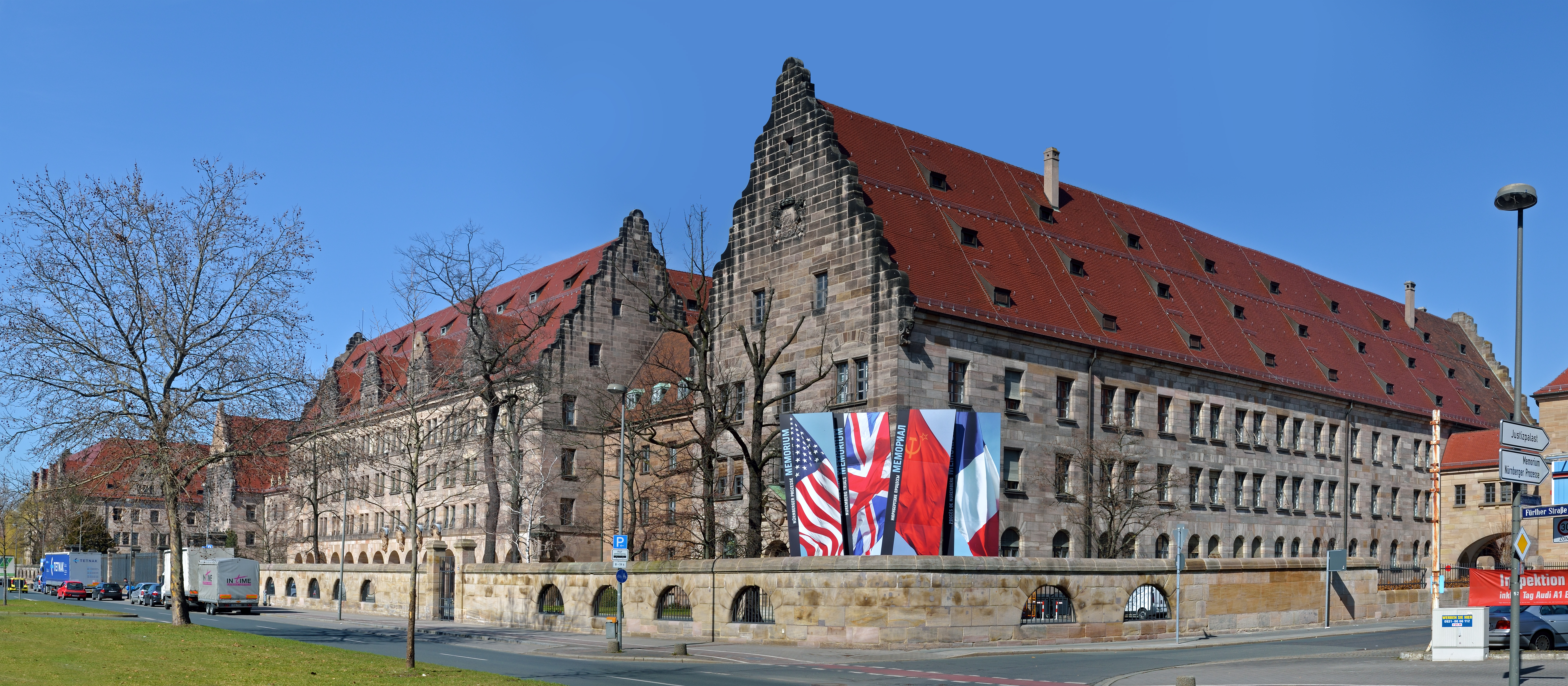 The justice palace in Nuremberg. It is a three segment panoramic image.